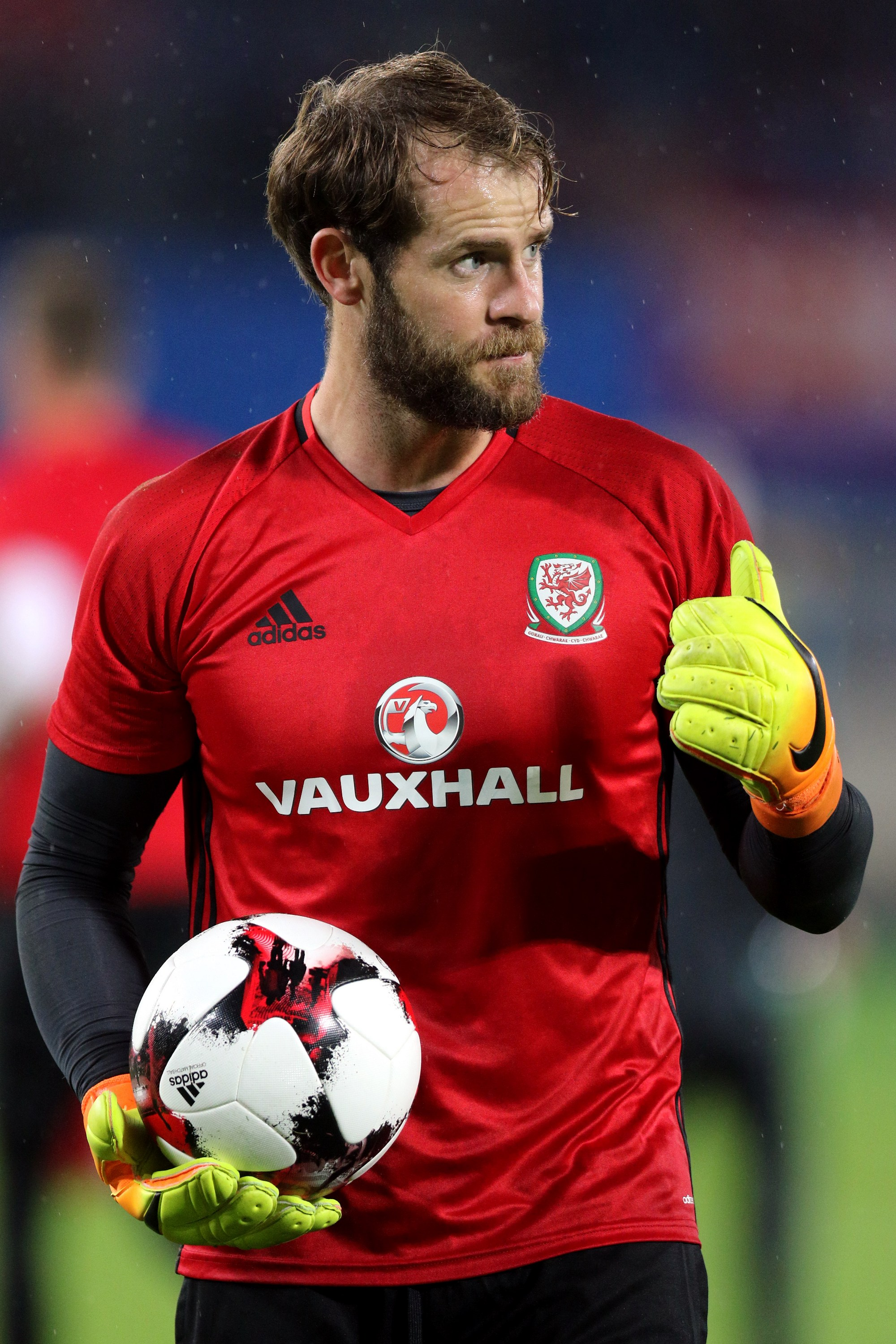 2018 FIFA World Cup qualification – UEFA Group D) – Austria (red shirts) vs. Wales (white shirts) 2-2 (1-2) – 2016-10-06 in Vienna, Ernst-Happel-Stadion – The photo shows goalkeeper Owain Fôn Williams (Wales).